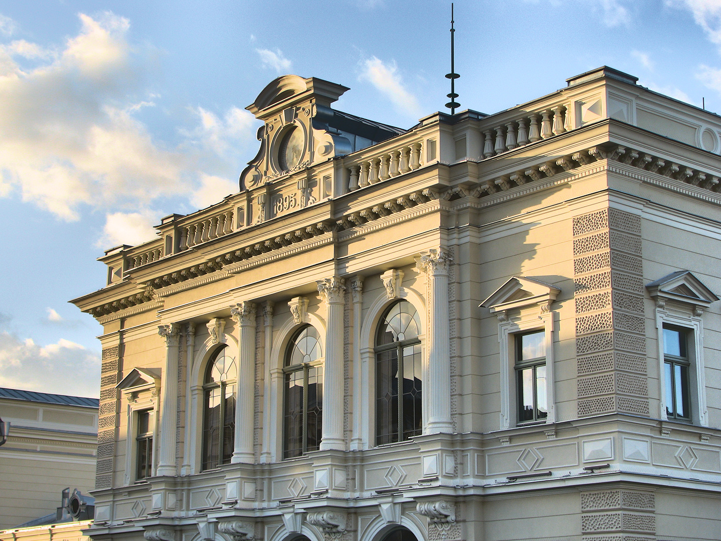 The detail over the main entrance to the station building in Przemyśl - one of the most amazing station buildings in Poland.